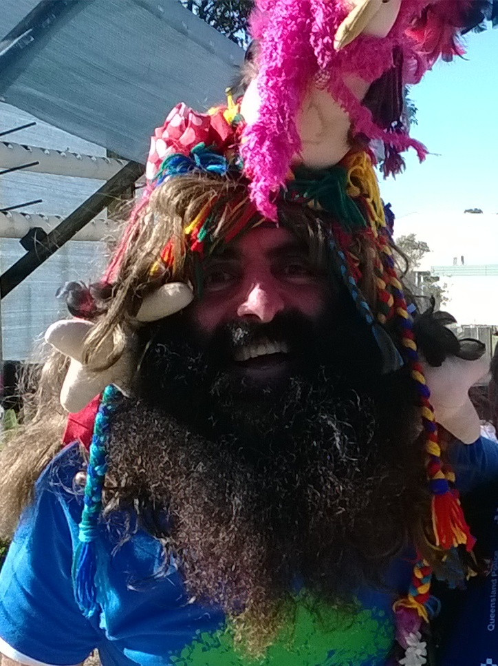 TV presenter Costa Georgiadis (left) visiting vegetable gardens at Tin Can Bay State School